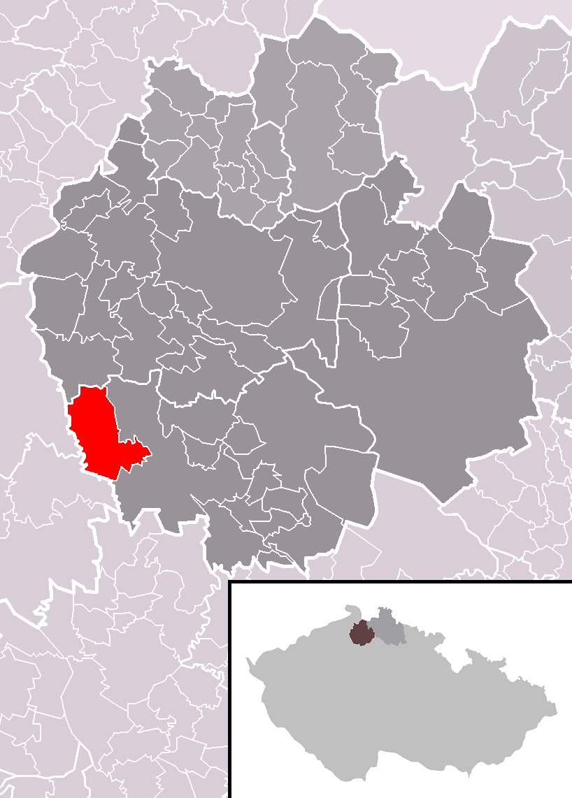 Location of Tuhaň municipality within Česká Lípa District and administrative area of Česká Lípa as a Municipality with Extended Competence.